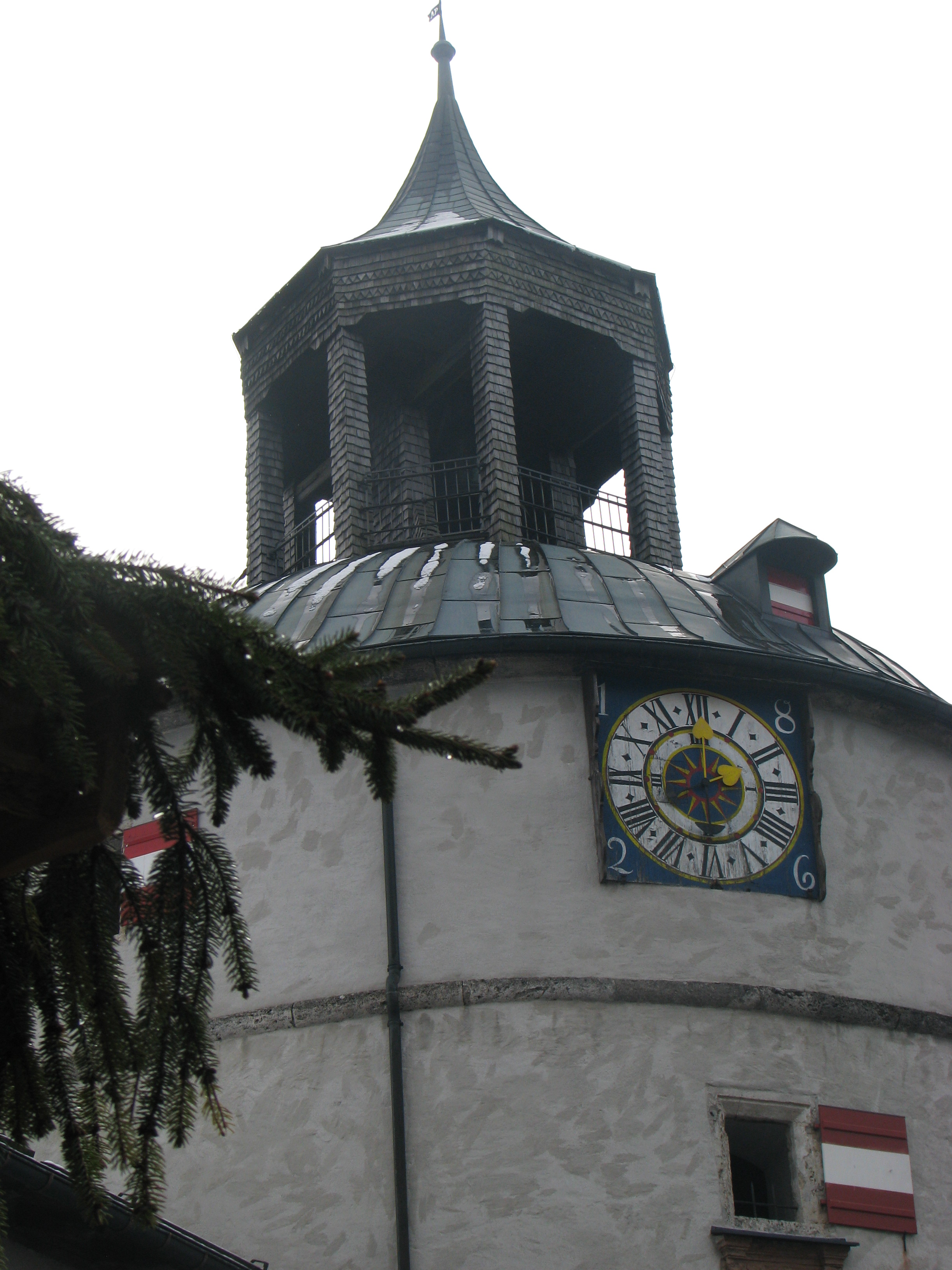 Clock and tower at Hohenwerfen